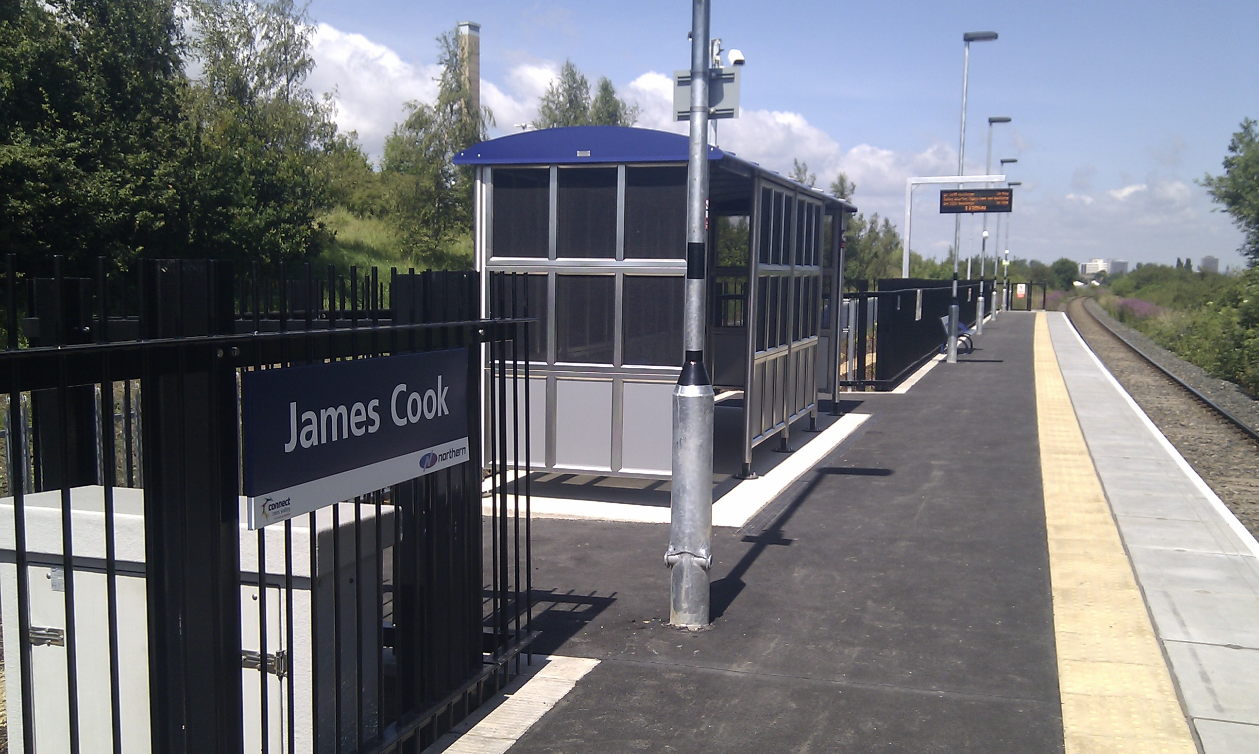 James Cook railway station July 2014